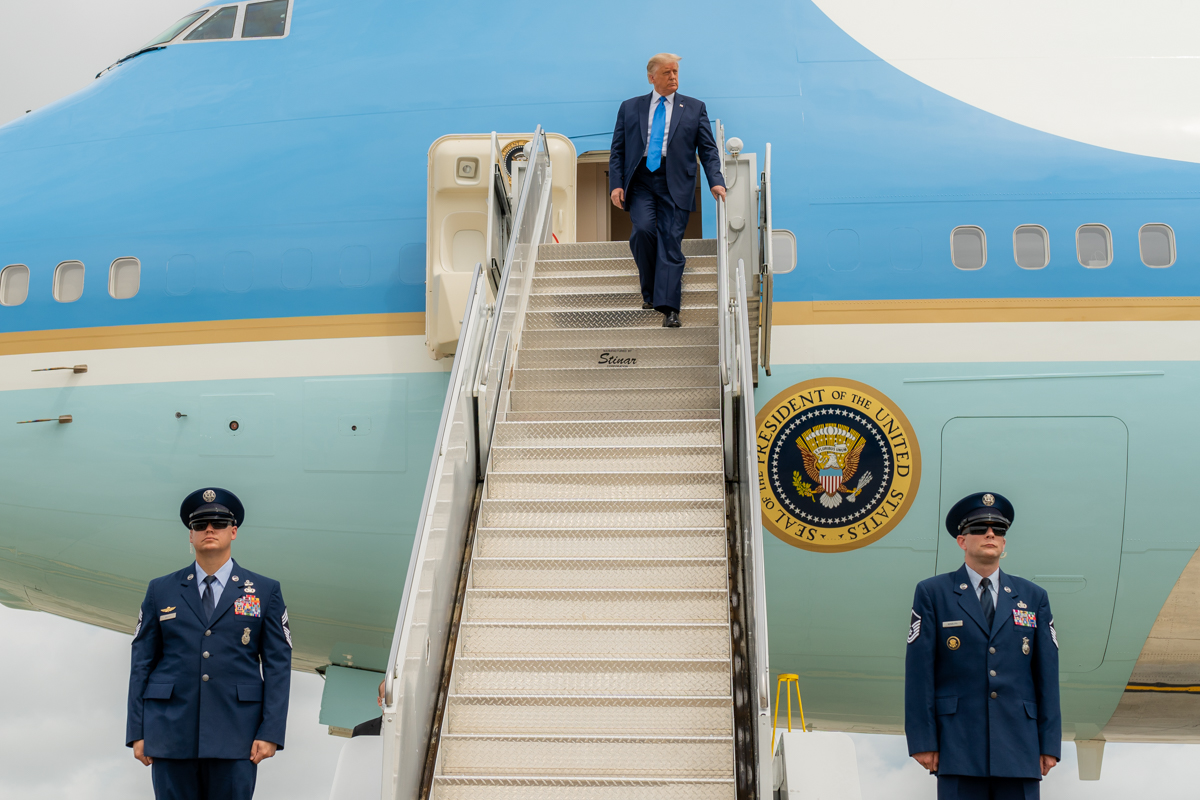 President Donald J. Trump disembarks Air Force One upon arrival at the Charlotte Convention Center in Charlotte, N.C. Monday, Aug. 24, 2020. (Official White House Photo by Shealah Craighead)